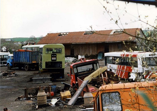 Castlewellan Station Previously a railway station served by the GNRI & BCDR railway companies, now in use as a scrapyard. The building in the background is all that remains of Castlewellan Station